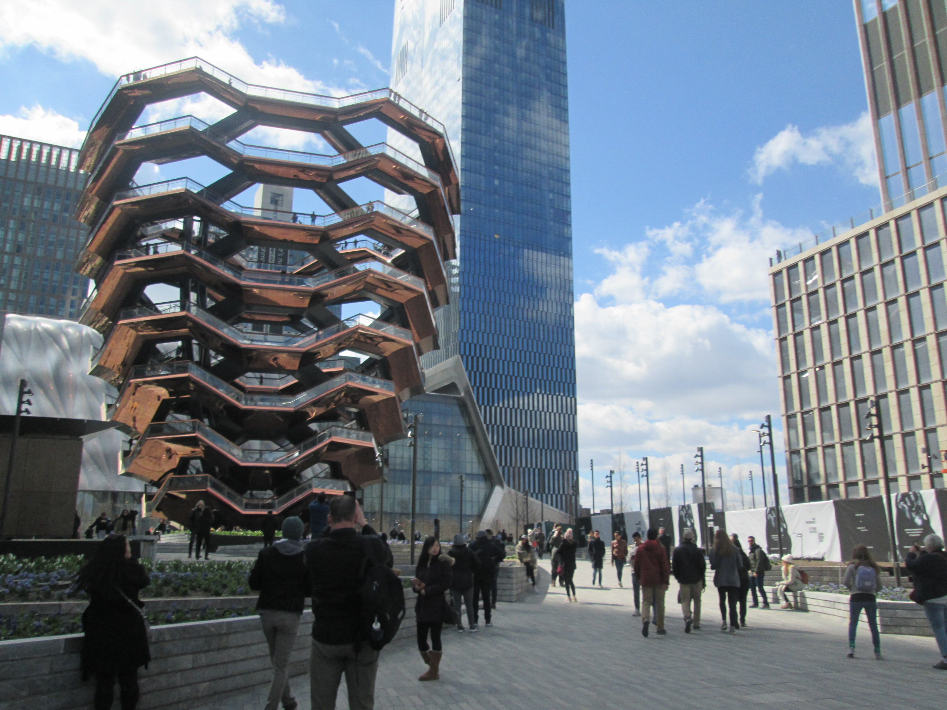 The Hudson Yards development in New York City in March 2019; looking south from 33rd Street at Vessel and public plaza